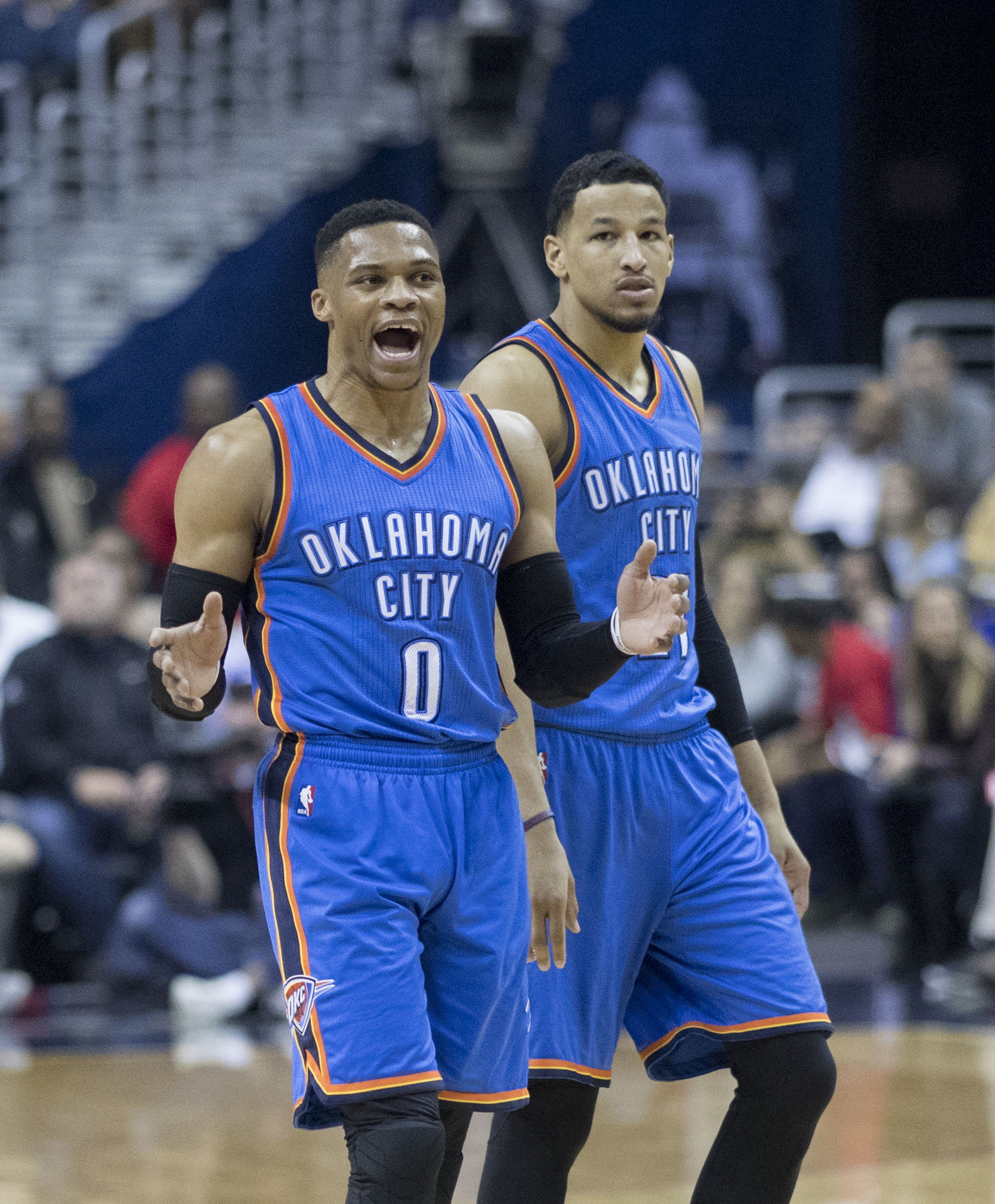 Thunder at Wizards 2/13/17